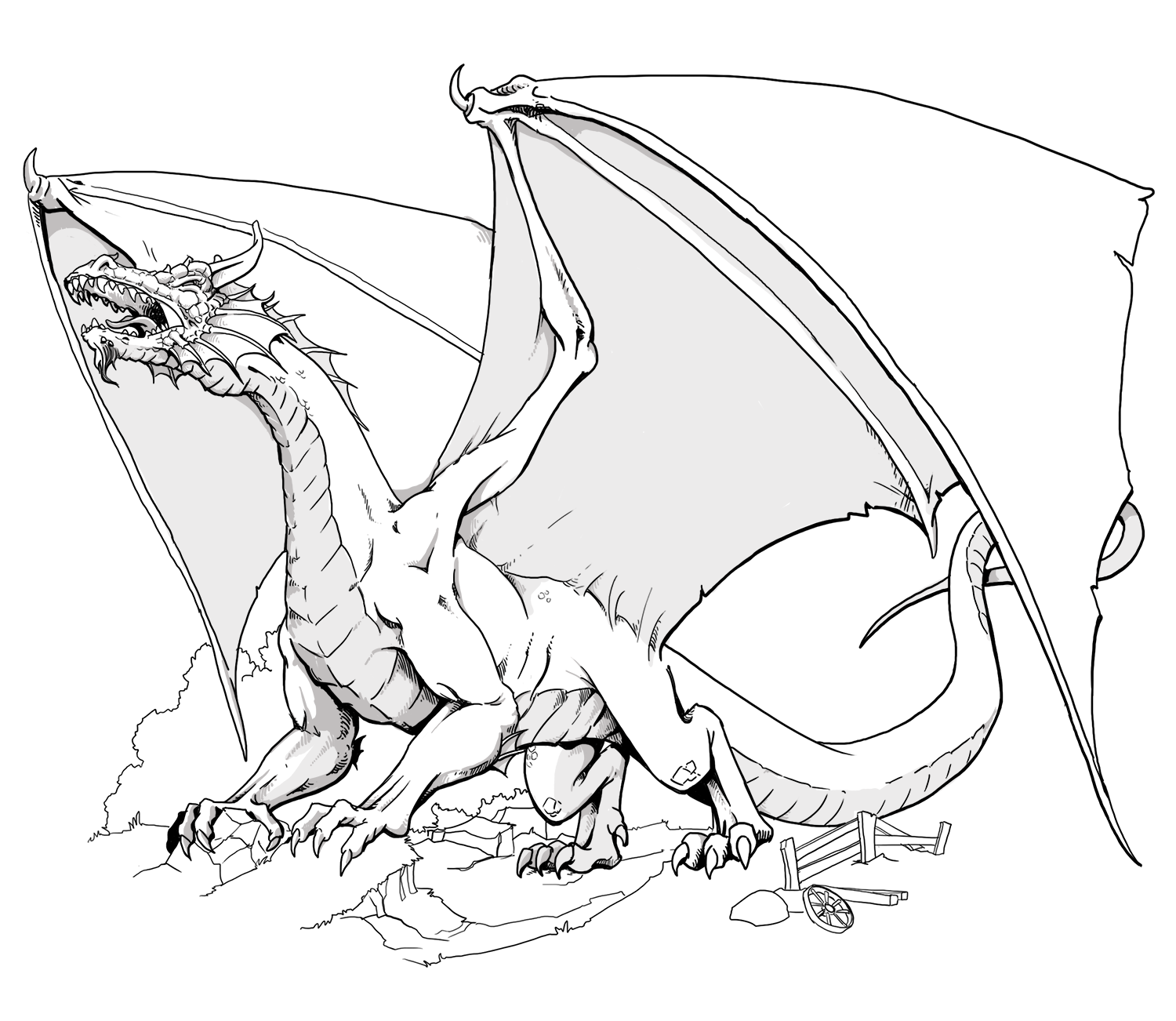 In the Dungeons & Dragons (D&D) fantasy role-playing game, dragons are an iconic type of monstrous creature used as adversaries or, less commonly, allies of player characters.